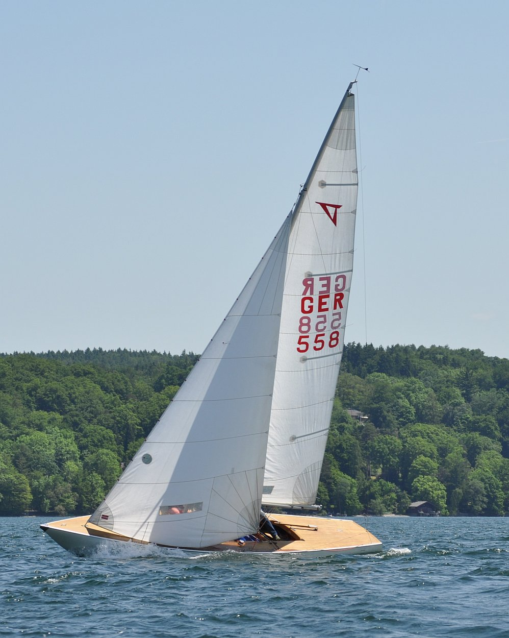 Trias Sailboat